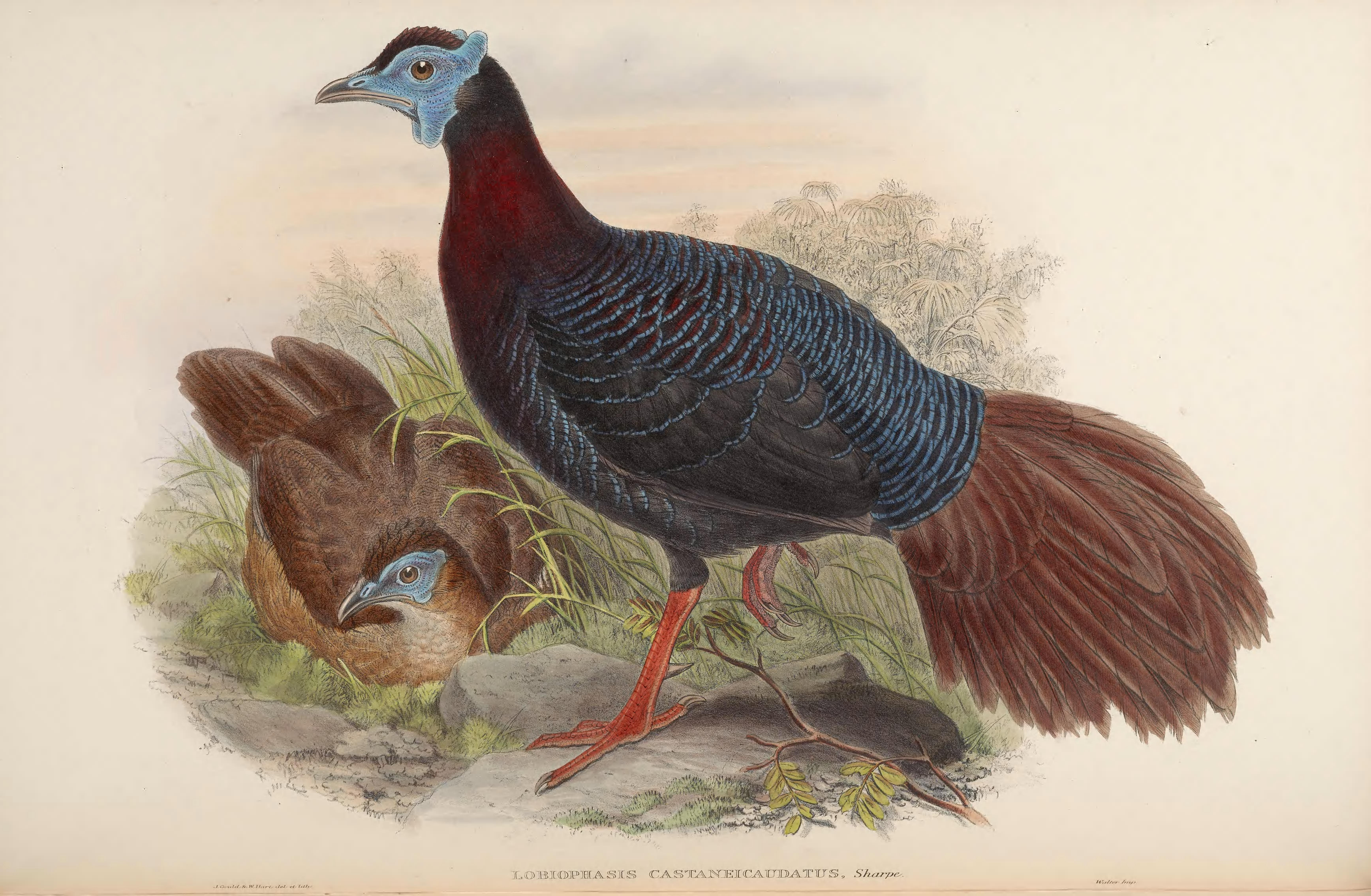 Lobiophasis castaneicaudatus = Lophura bulweri[1]